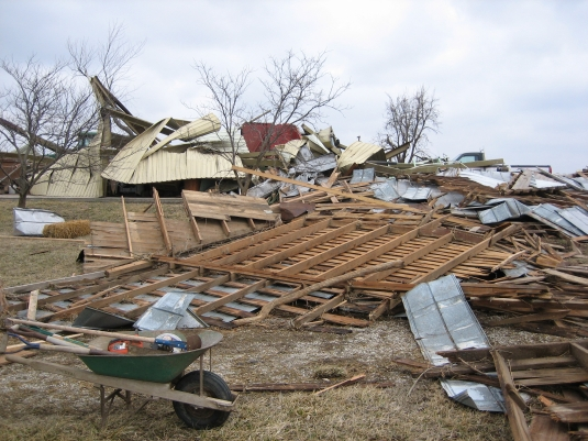 Tornado damage in eastern Kansas on February 28, 2007 (Courtesy of NWS Topeka, Kansas)